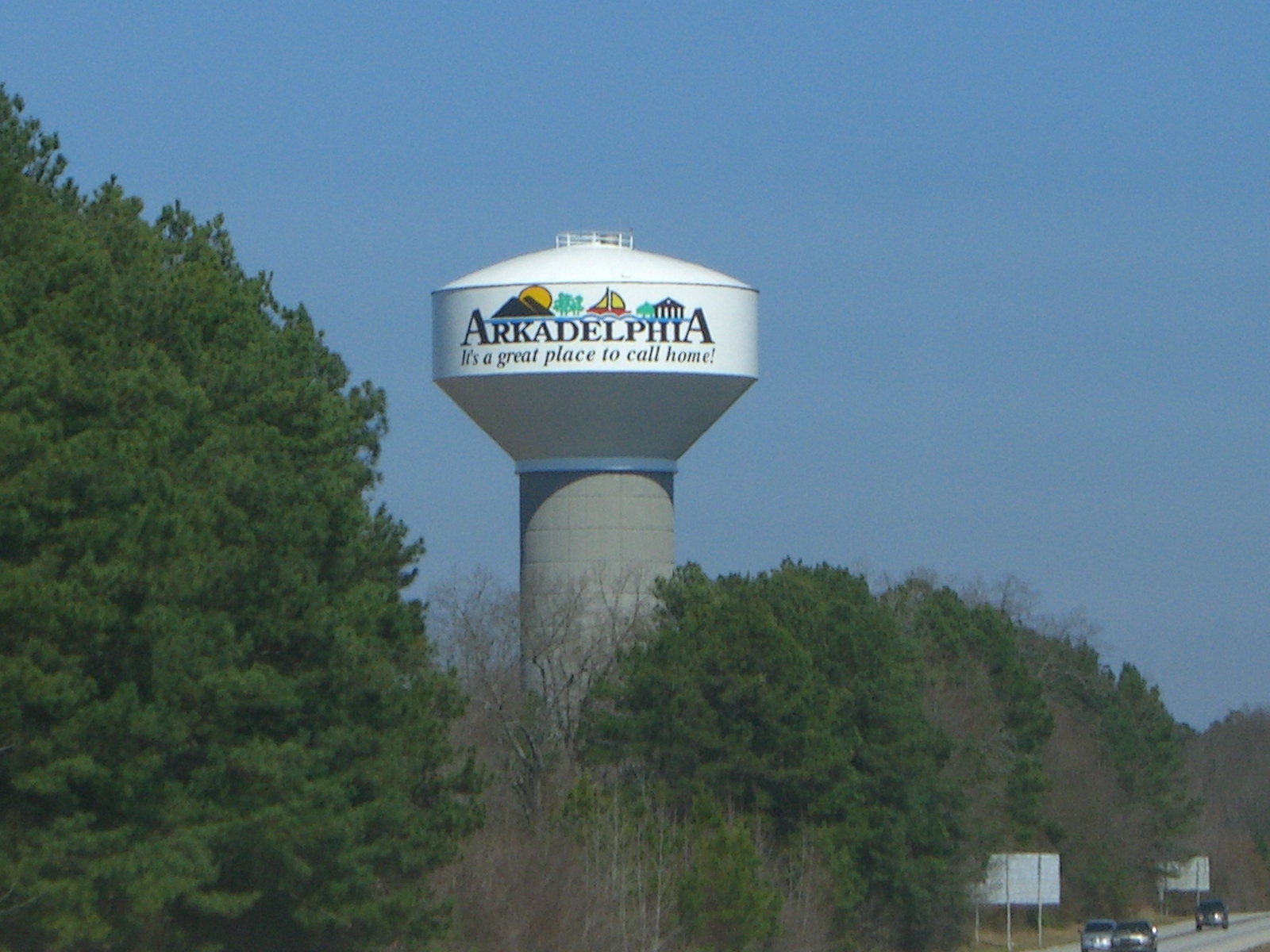 Arkadelphia, Arkansas watertower.